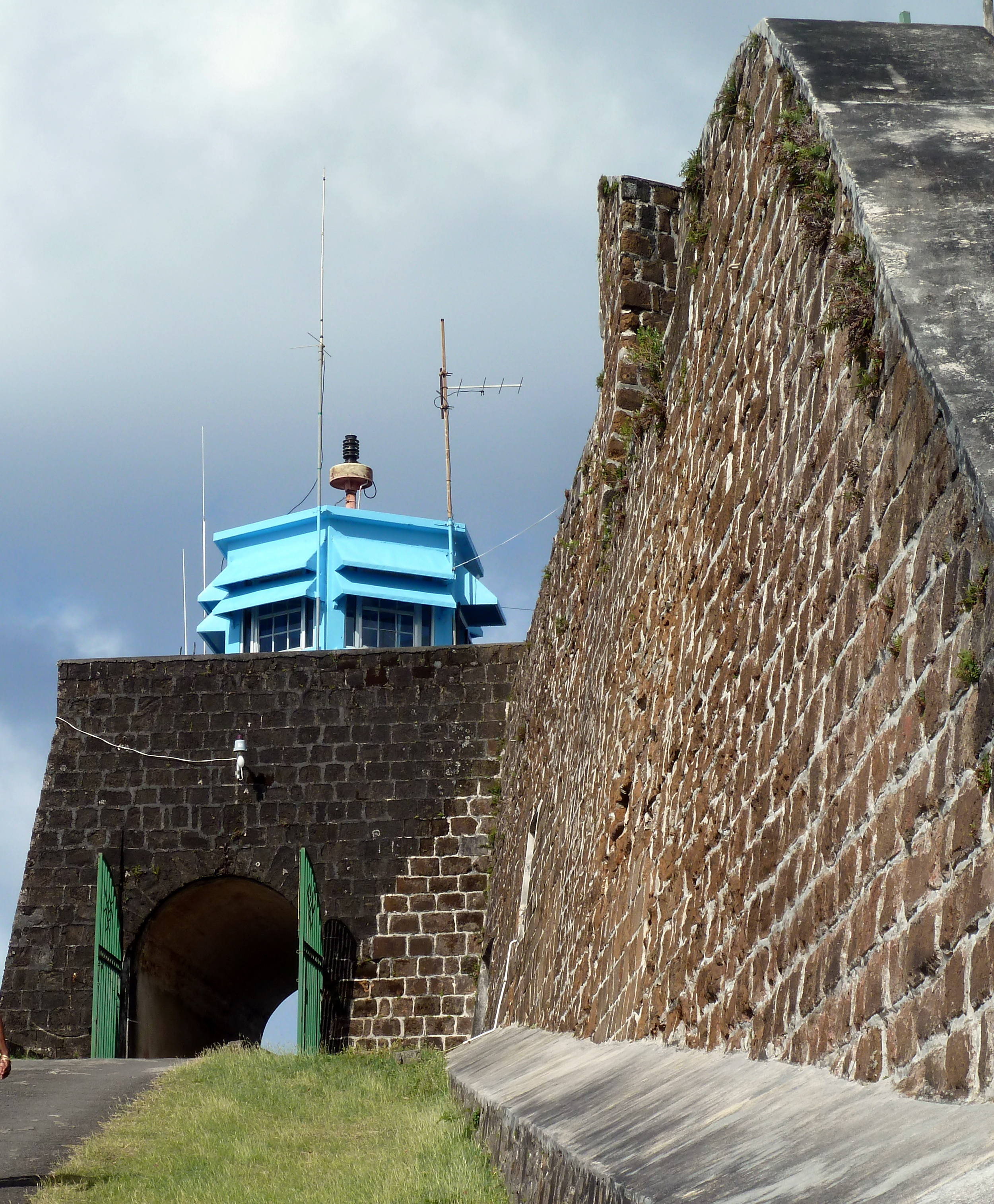 St. Vincent, Karibik - Kingstown – Entrance to Fort Charlotte